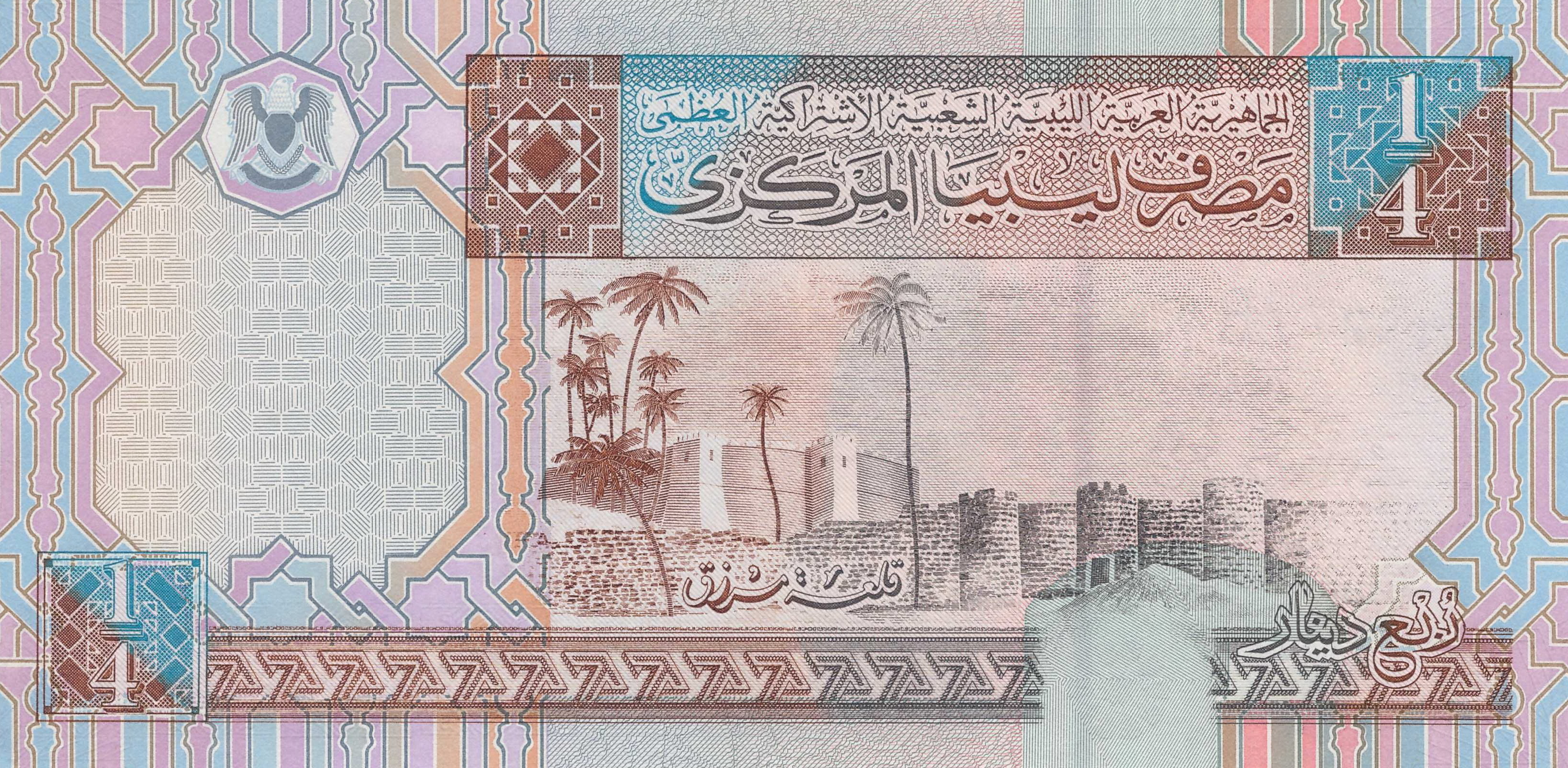 Money 038 Libya 2007